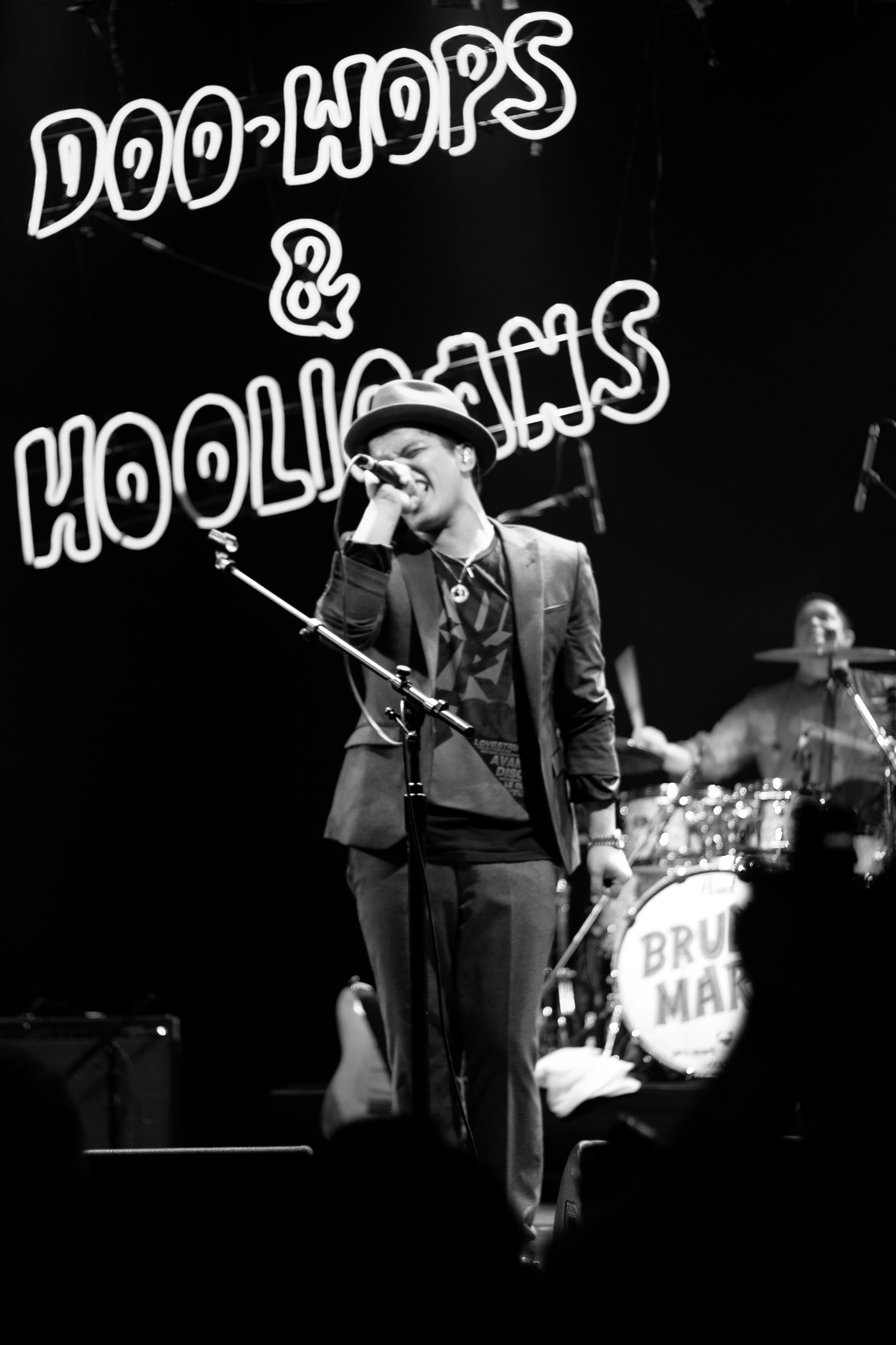 Warehouse Live